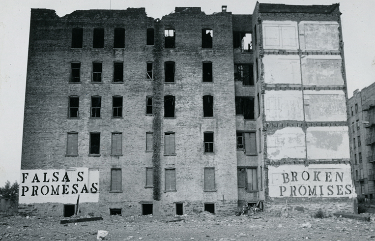 Urban decay. Falsas Promesas Broken Promises, John Fekner, Charlotte Street Stencils, South Bronx, NY 1980. John Fekner